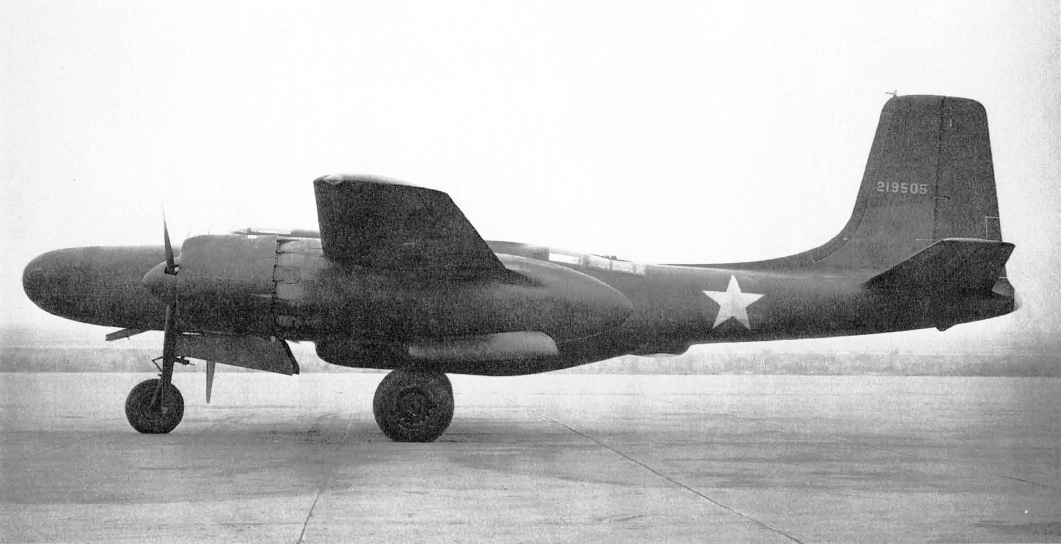 Boeing XA-26A, July 1943. Prototype of proposed night fighter version of A-26, painted overall black with radar in nose and underfuselage gunpack.